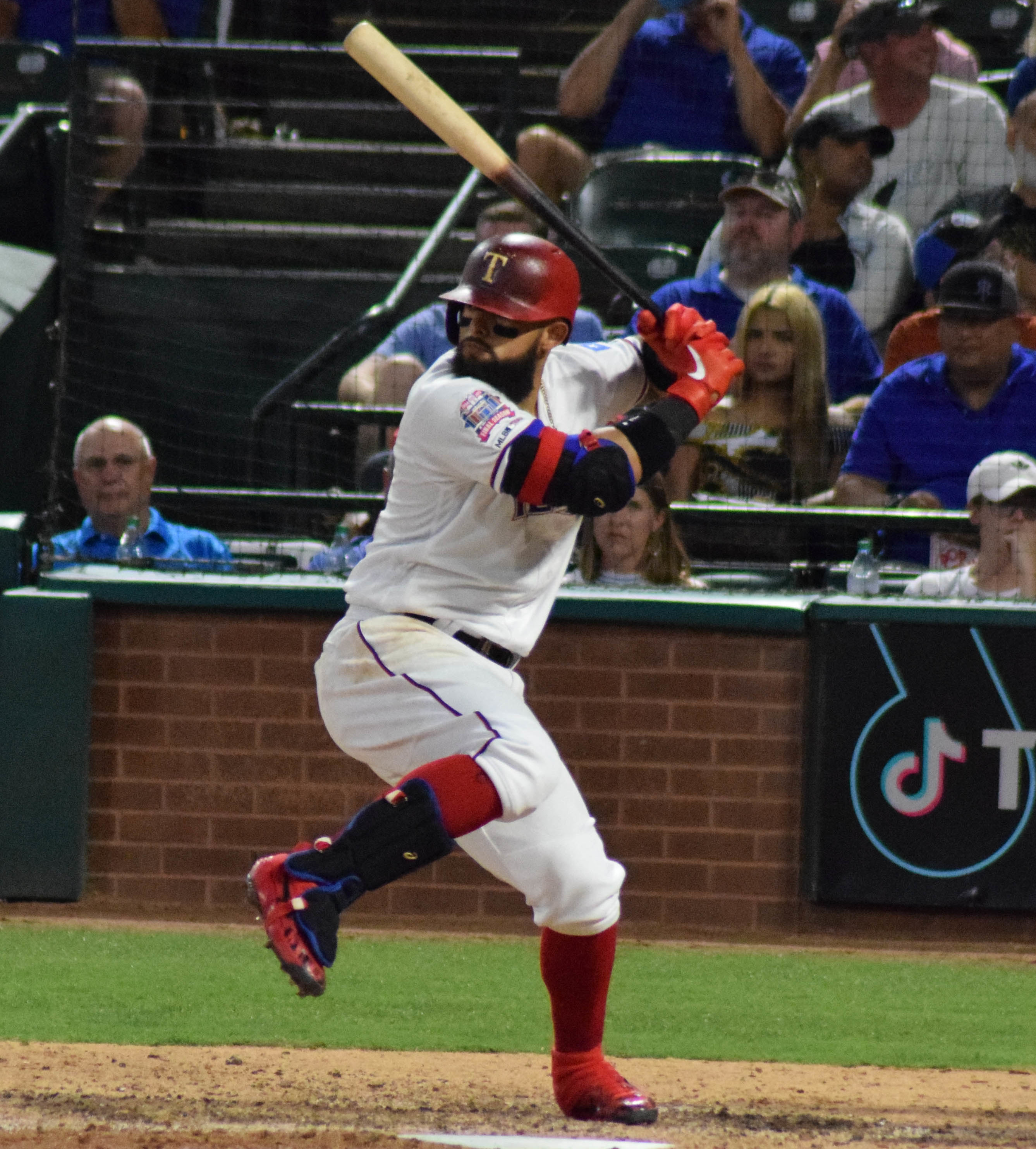 Rougned Odor